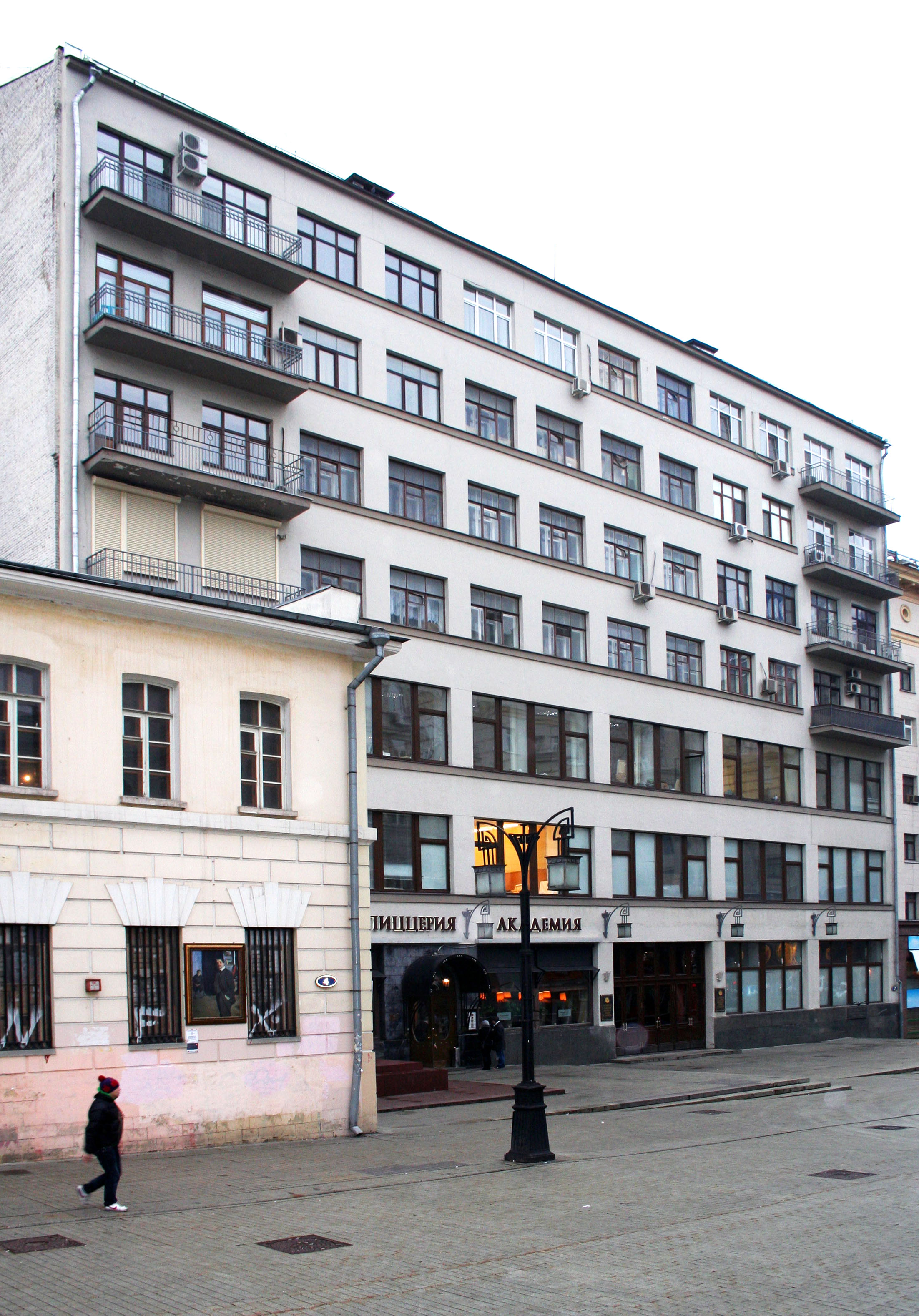 Kamergersky Lane, 2